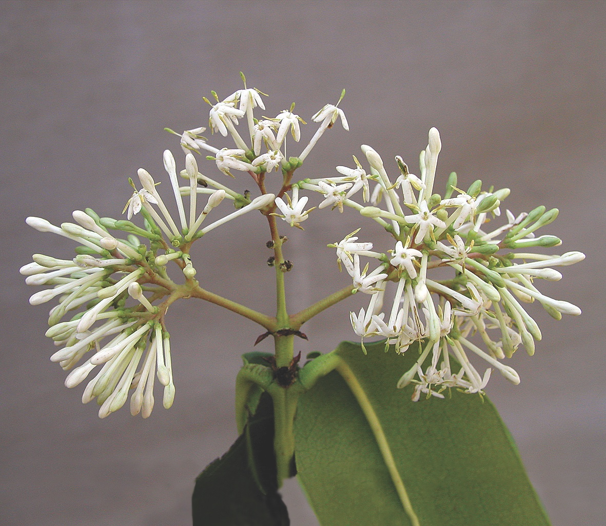 Ixora pavetta flower